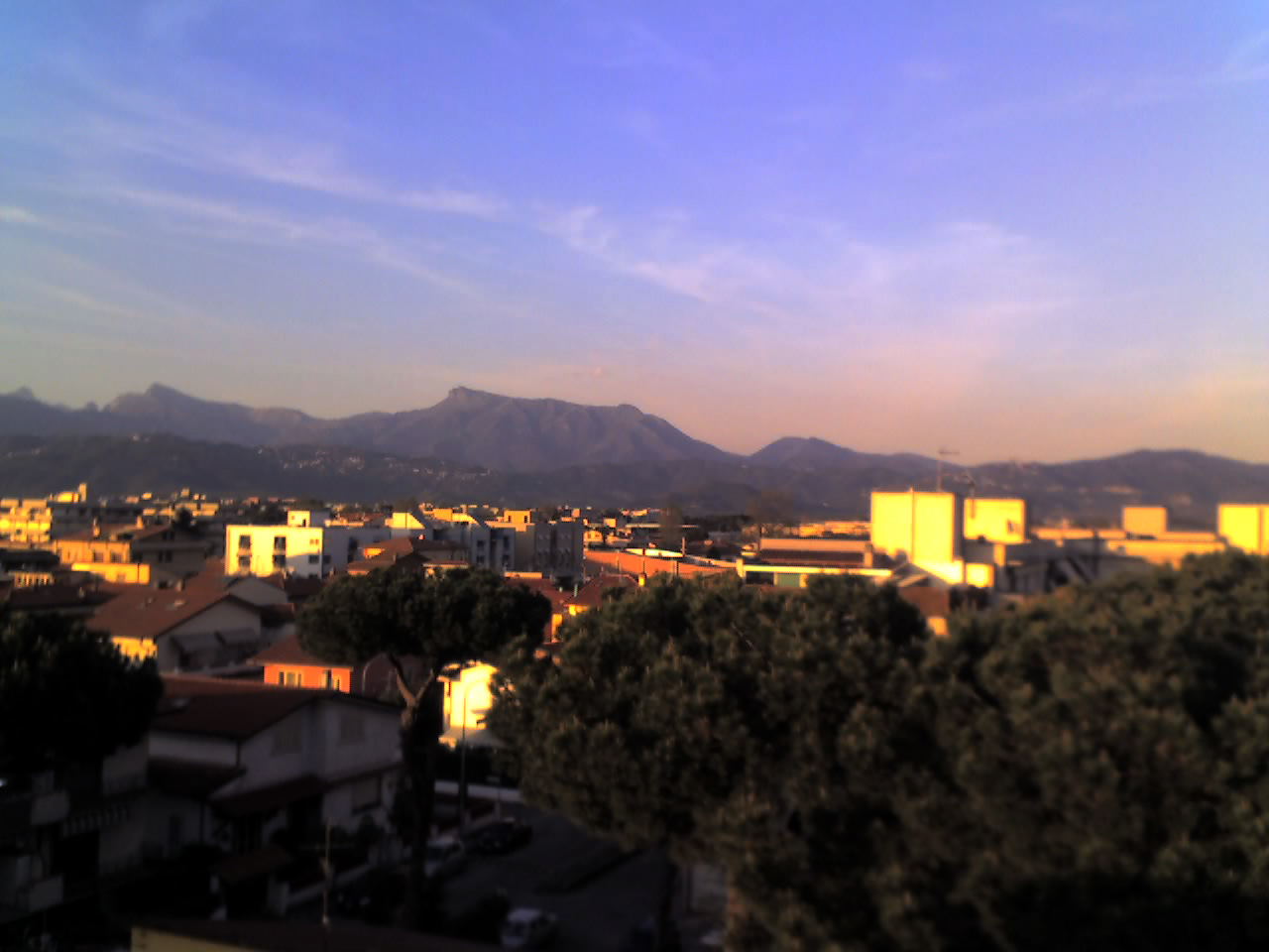 viareggio